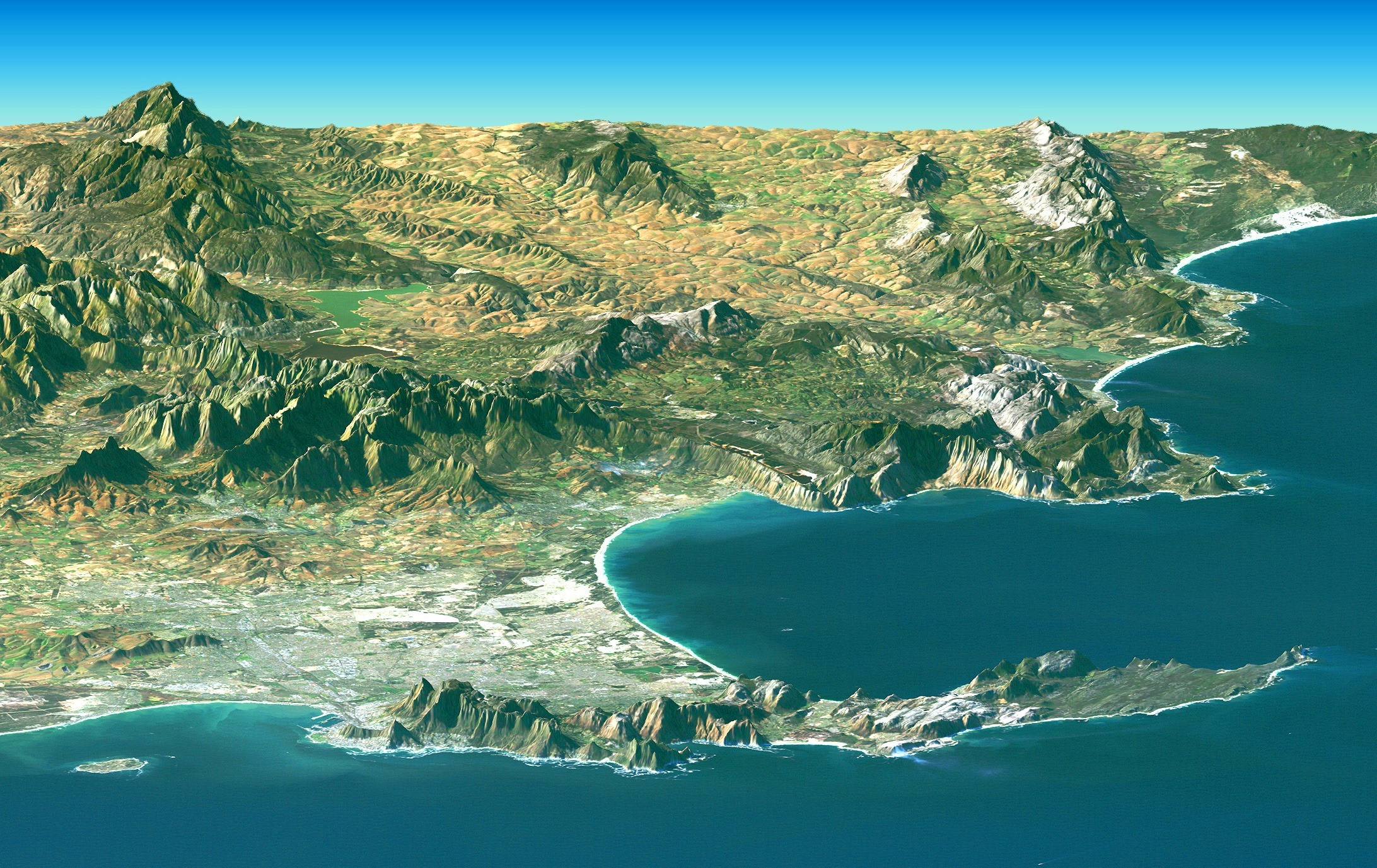 PIA04961: Cape Town, South Africa, Perspective View, Landsat Image over SRTM Elevation. Cape Town and the Cape of Good Hope, South Africa, appear in the foreground of this perspective view generated from a Landsat satellite image and elevation data from the Shuttle Radar Topography Mission (SRTM). The city center is located at Table Bay (at the lower left), adjacent to Table Mountain, a 1,086-meter (3,563-foot) tall sandstone and granite natural landmark. The large bay facing right (South) is False Bay. The perspective is computer generated, combining a photograph with elevation data collected using radar. This Landsat and SRTM perspective view uses a 2-times vertical exaggeration to enhance topographic expression. The back edges of the data sets form a false horizon and a false sky was added. Colors of the scene were enhanced by image processing but are the natural color band combination from the Landsat satellite.